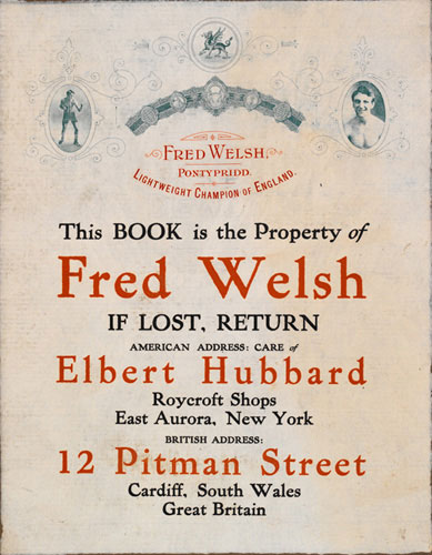 Scrap book of Freddie Welsh, later lightweight boxing champion of the world. Scrap book shows his close connection to Elbert Hubbard.